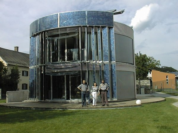 The photo shows from left to right: Santner Robert who made the house Maria Mösl, my wife Roland Mösl, the inventor of the GEMINI inhabited solar power plant It was taken 2001 with my AGFA 1280 camera. I gave my camera to some person to make the photo of us. The photo is published on [1]